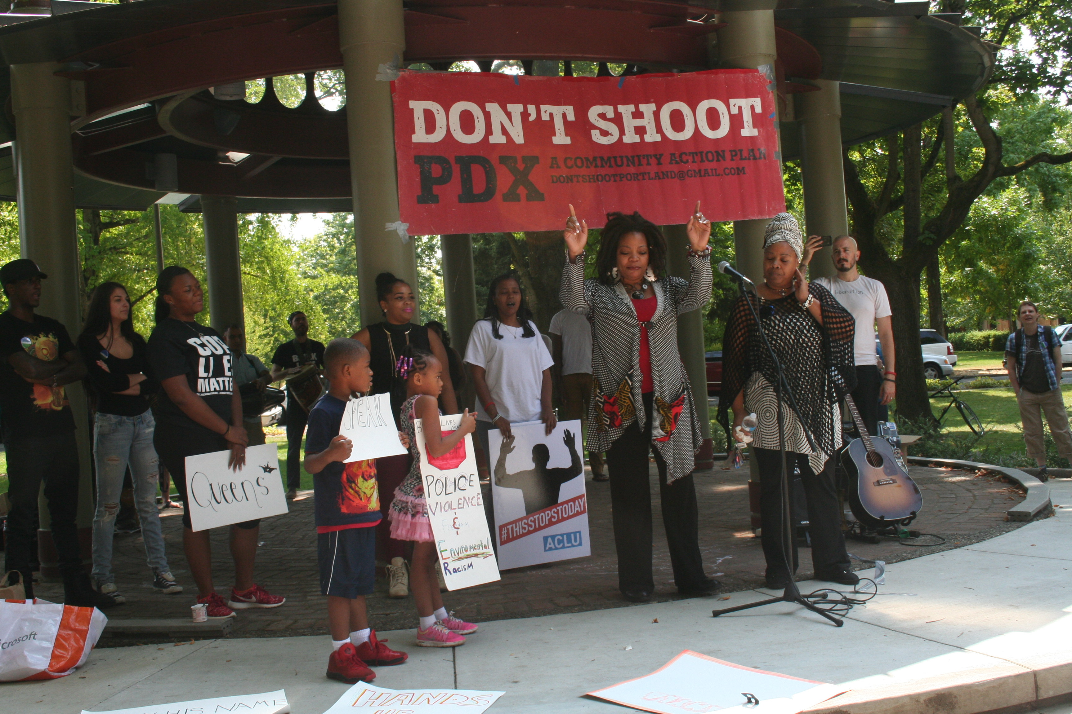 Photos from a rally for Don't Shoot PDX and #SayTheirNames